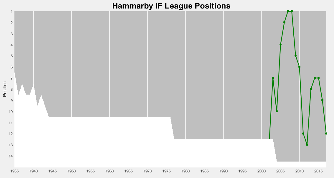 Hammarby IF Handboll positions in the top division. The grey area denotes the number of teams in the top division. For split seasons, the autumn positions are shown when the team did not play in the top division in the spring season.